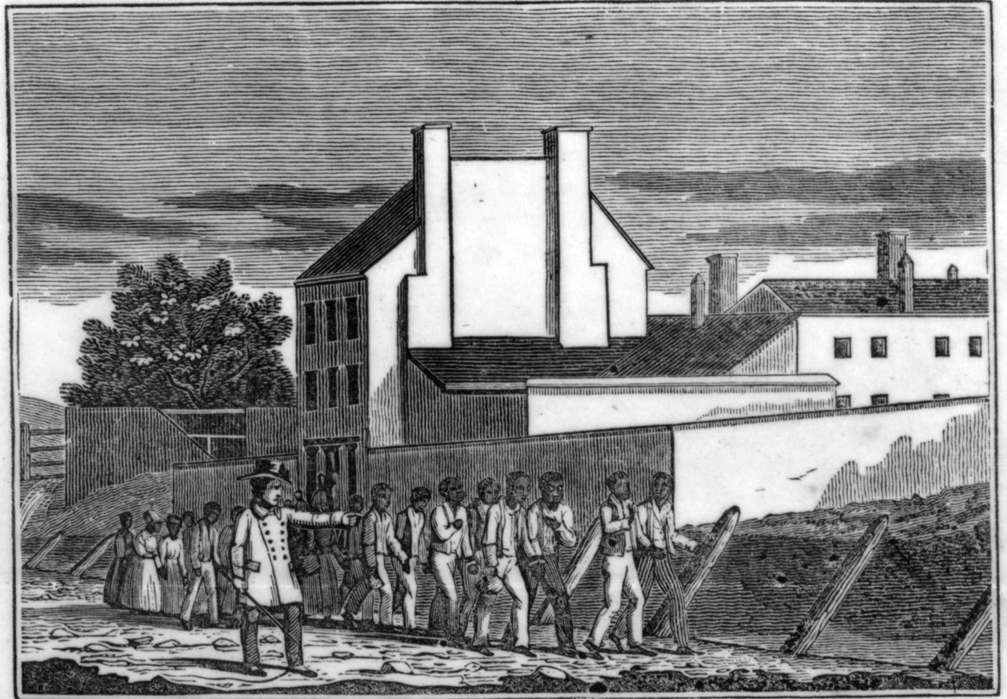 Detail from an 1836 anti-slavery broadside. Original caption: "Franklin & Armfield's Slave Prison." Franklin and Armfield were a Alexandria, Virginia slave trading firm.